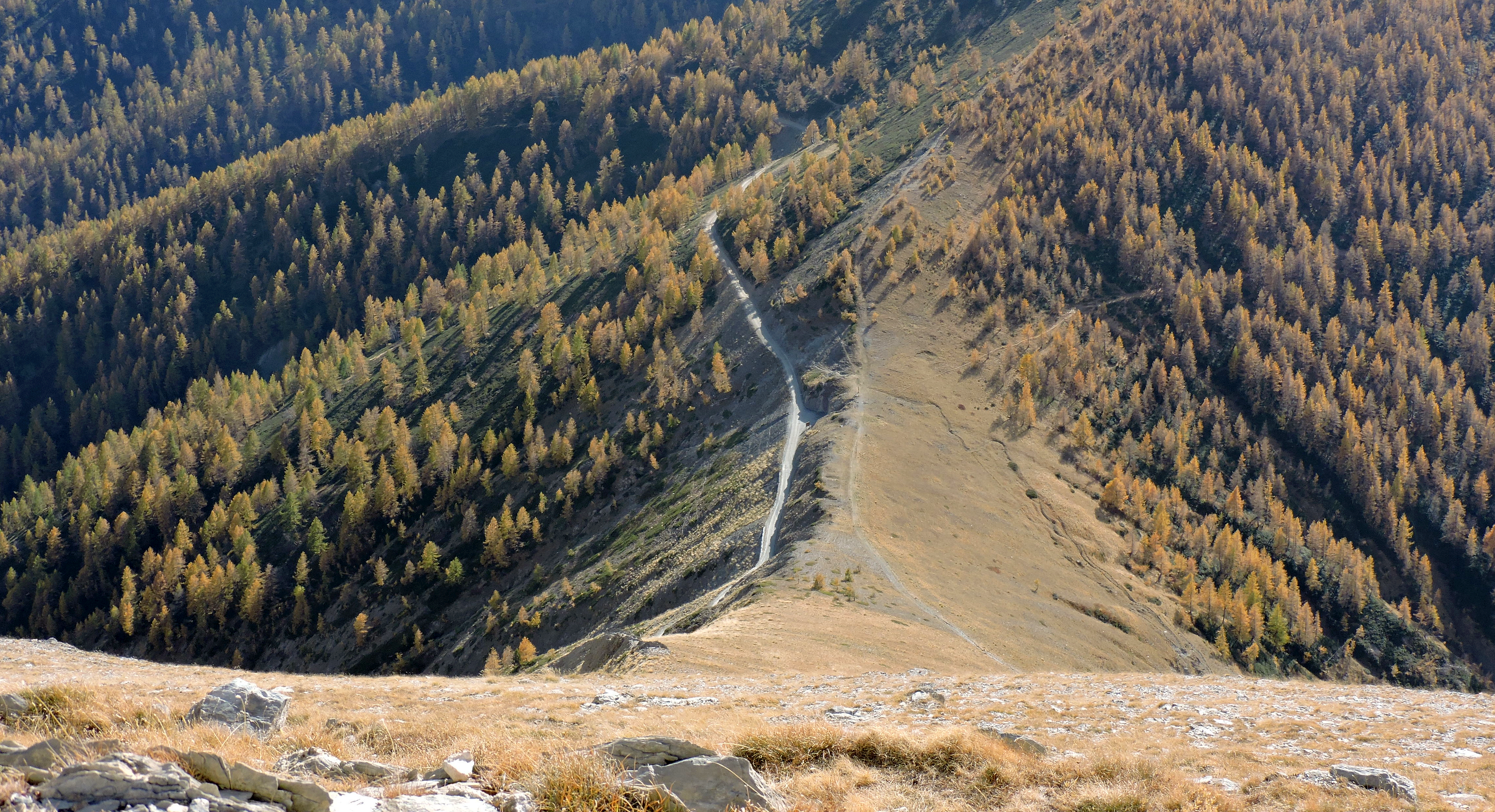 Colle delle Selle Vecchie from Cima di Pertegà (Ligurian Alps, French/Italian border)